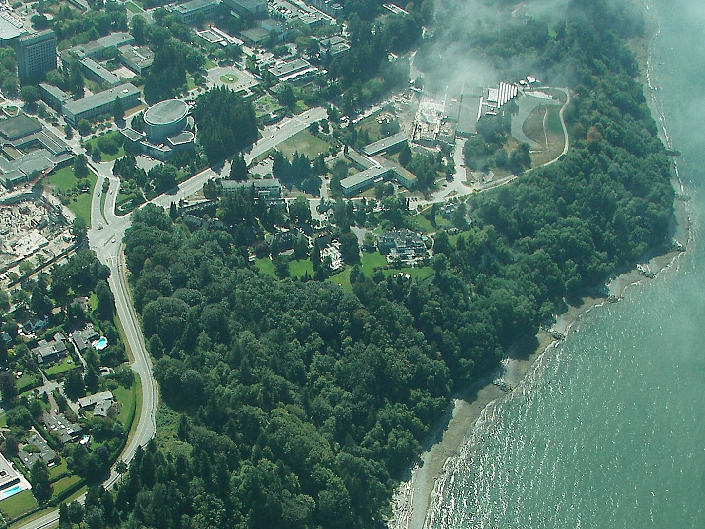 Green College, University of British Columbia, view of the northern part of campus taking from about 2000' above campus level at midday from the northeast. Green College and Cecil Green Park House are set among green grass in the centre of the picture. The Museum of Anthropology is in the top right quadrant, partially obscured by cloud. Chan Center for the Performing Arts is a distinctive oval shape in the top left quadrant. Wreck Beach and the waters of the Georgia Straight are to the bottom and right.